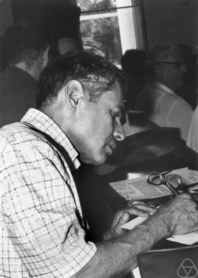 Mathematician Irving Segal in Nizza, 1970.